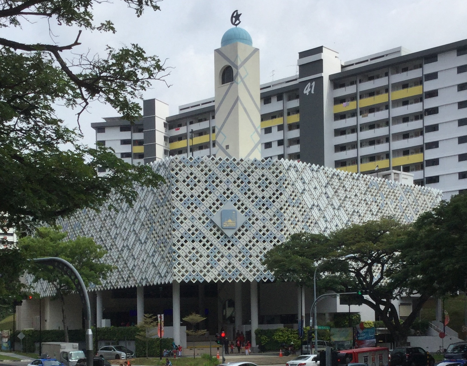 Masjid Al-Ansar after renovation.